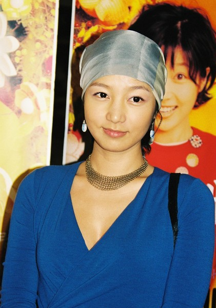 Jang Jin-young at Over the Rainbow press preview in Joongang Cinema, Seoul on May 8, 2002.